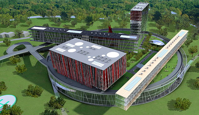 Campus of the Moscow School of Management SKOLKOVO